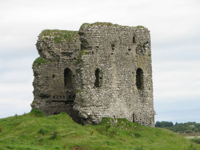 Moylough castle, near to Moylough, Ireland. This castle is just off the N63 road. It is a 13th century Hall House.